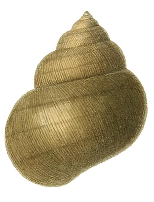 Drawing of an abapertural view of the shell of Cipangopaludina cathayensis.